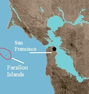 Modified by TShilo12 from Image:Wpdms usgs photo golden gate.jpg to show position of Farallon Islands.